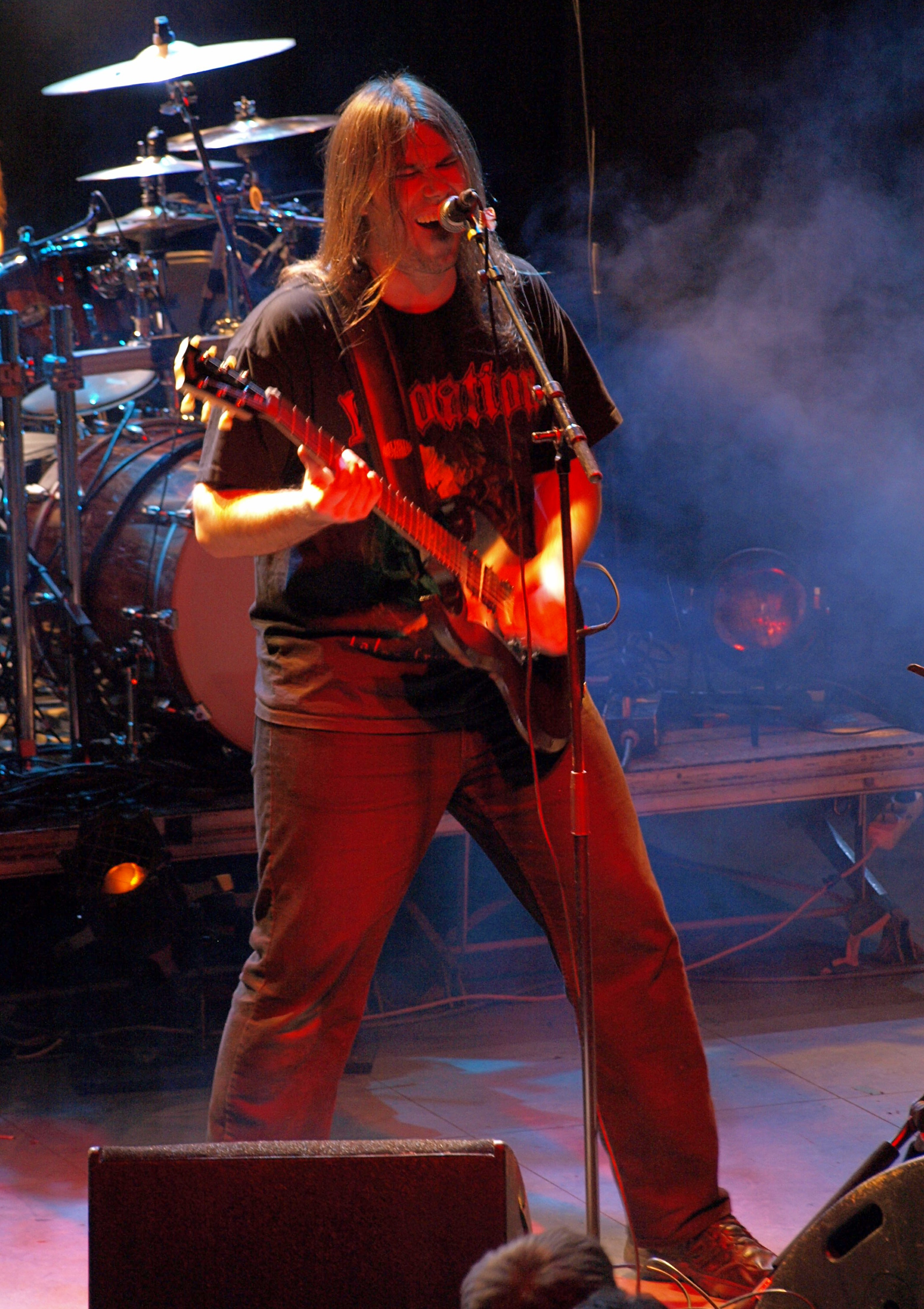 Swedish progressive metal band Nightingale live at Nosturi, Helsinki